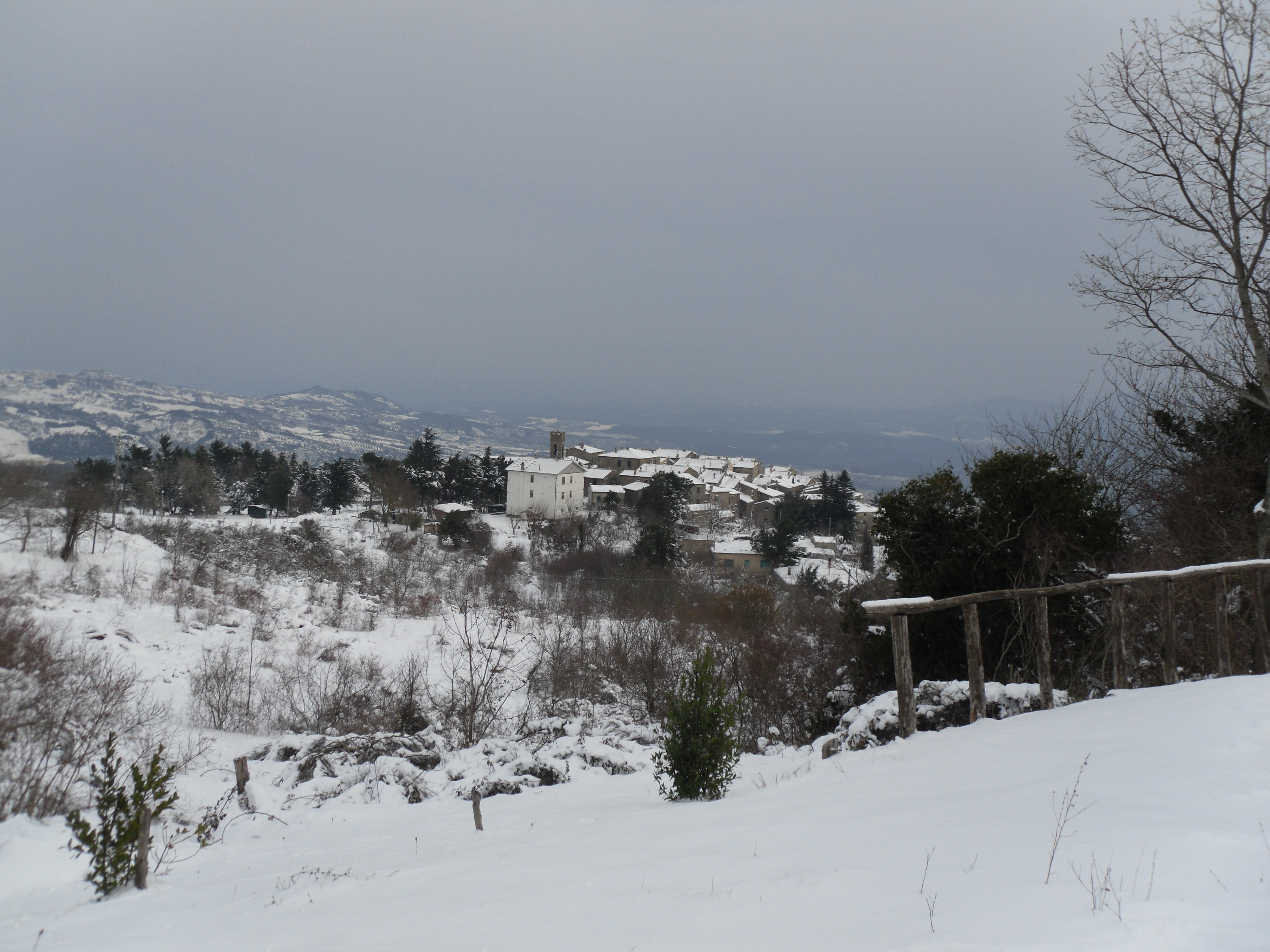 the country under the snow Sassofortino